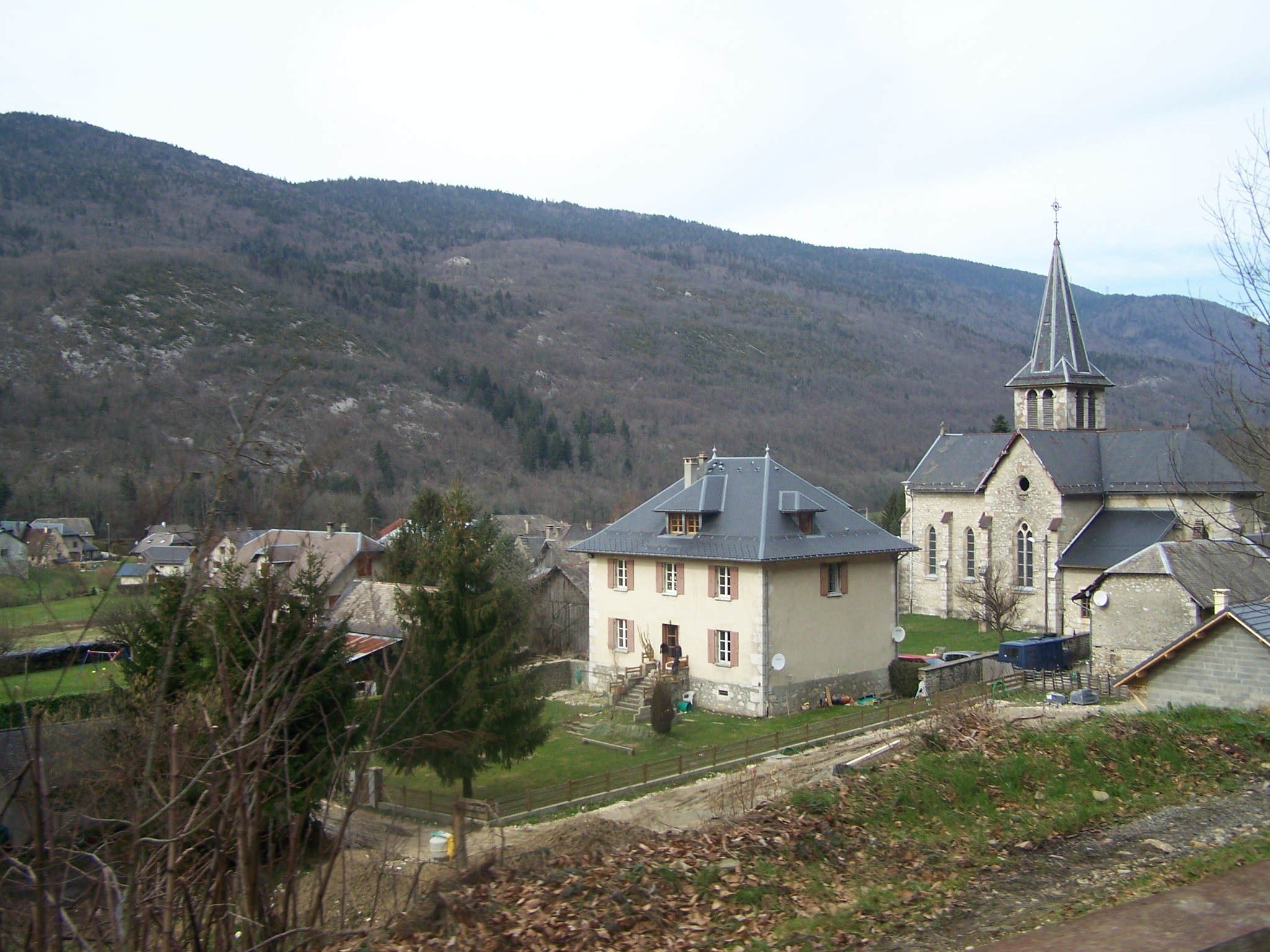 The Savoyan village of St-Jean de Couz (France).